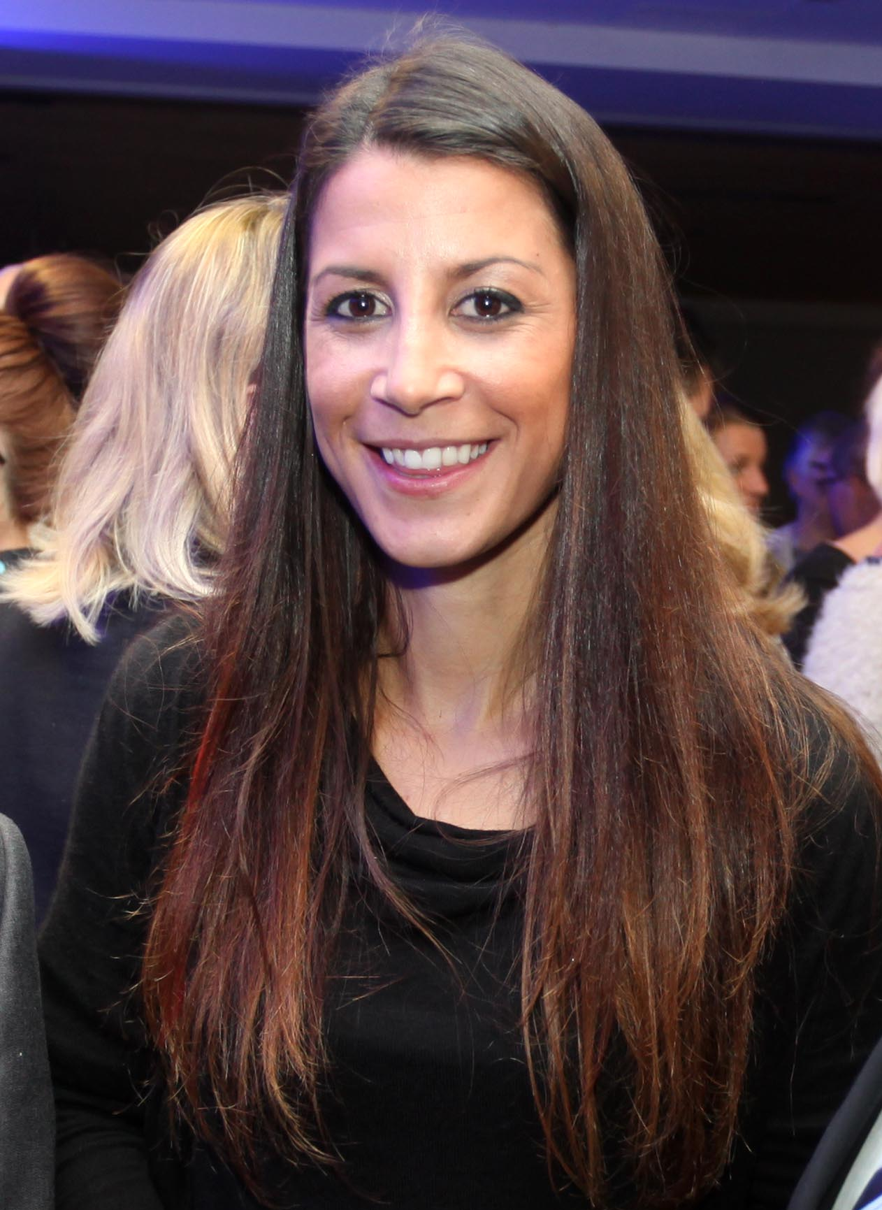 Shelley Rudman at the Wiltshire sports awards 2015